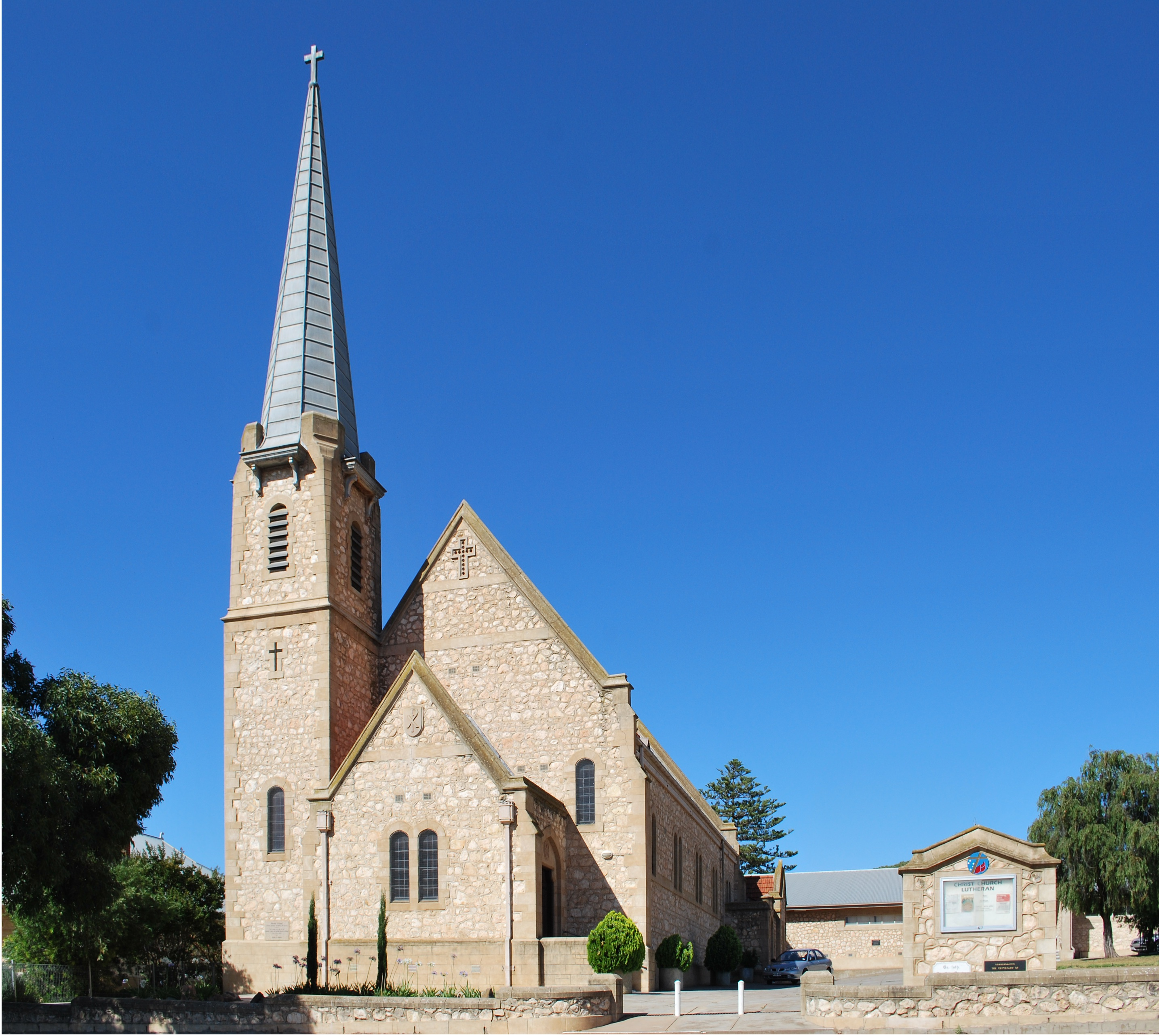 Christ church Lutheran church at Murray Bridge, South Australia